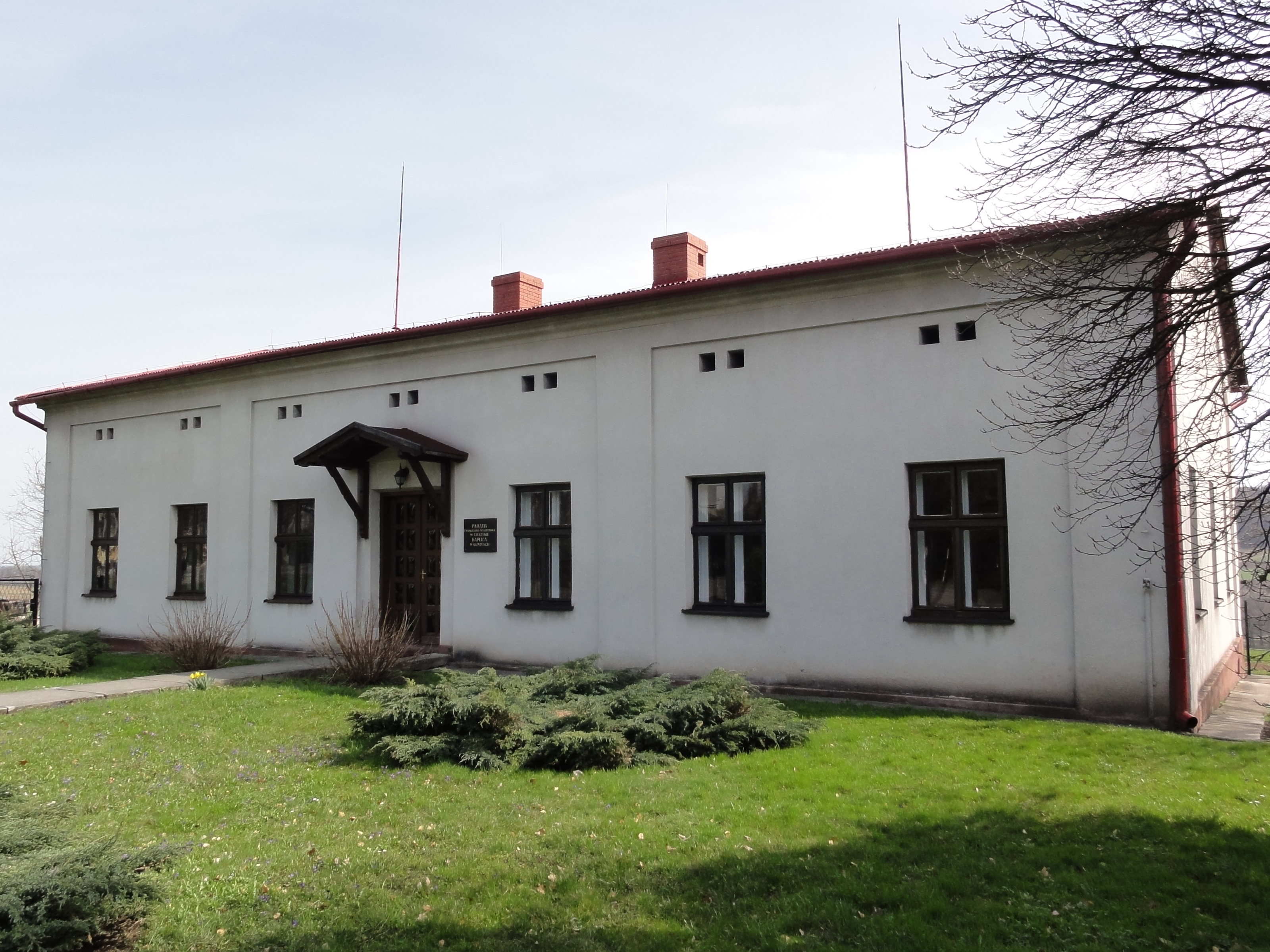 Lutheran chapel in Gumna (Cieszyn parish)